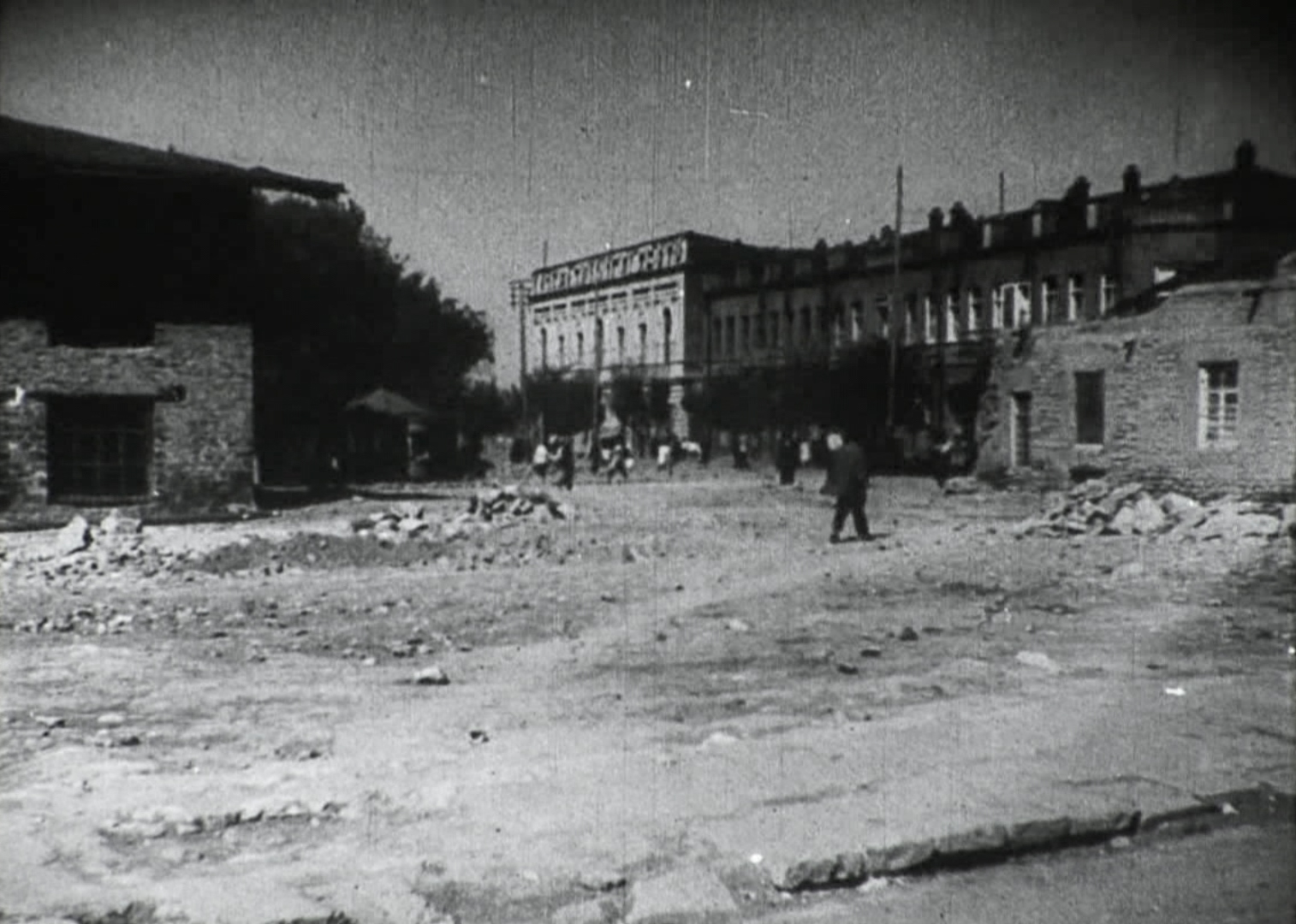 Yerevan Republic Square construction